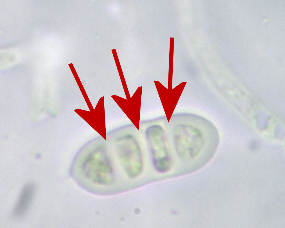 Common Jelly Spot (Dacrymyces stillatus) - Spore with septa